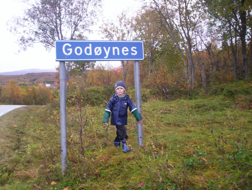 Arne Engmo